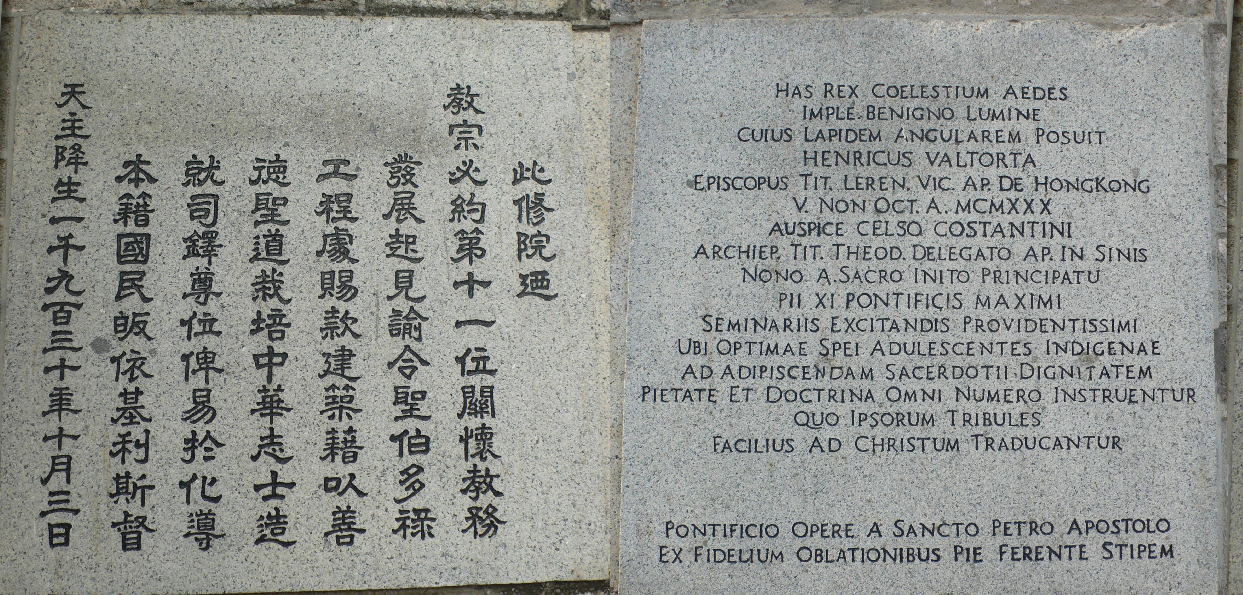 The Two Foundation Stons of Holy Spirit Seminary, Hong Kong: The one of the left is in Chinese and the one on the right is in Latin